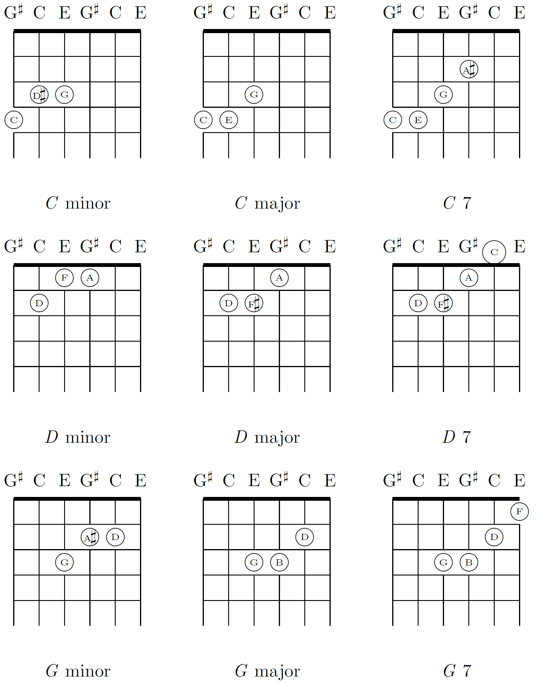 A three-by-three illustration of major-thirds tuning. Each row concerns exactly one natural note: C, D, or G. Each column concerns exactly one type of chord: Minor, major, or dominant seventh.